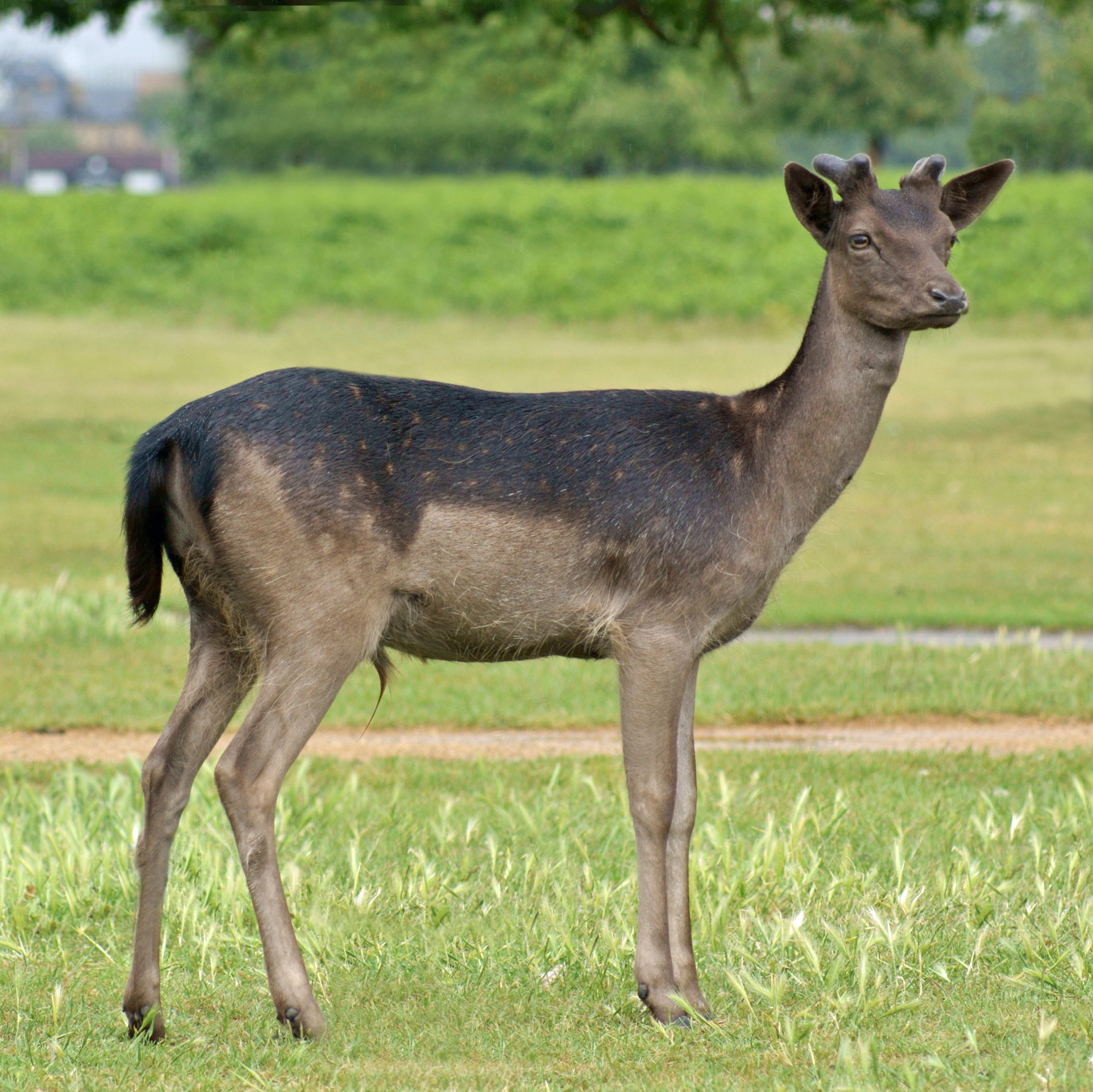 A black variety of fallow deer (Dama dama) photographed in Bushy Park, Teddington, England.